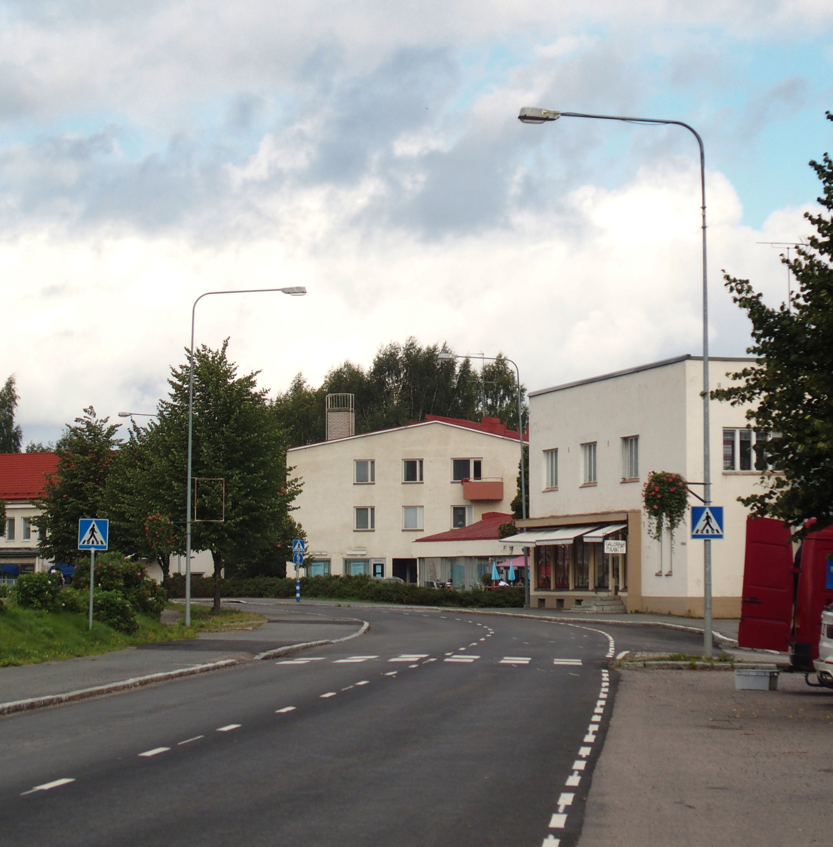 Keskustie road (local road 14169) in Padasjoki, Finland.